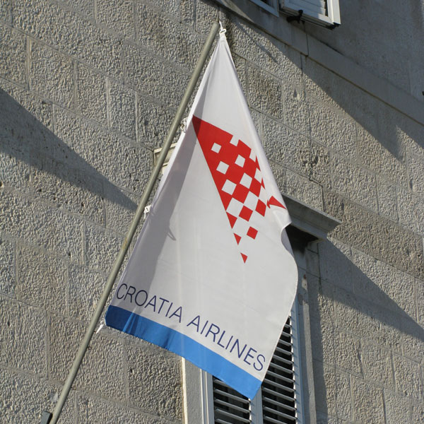 Croatia Airlines, company flag in front of their office in Split